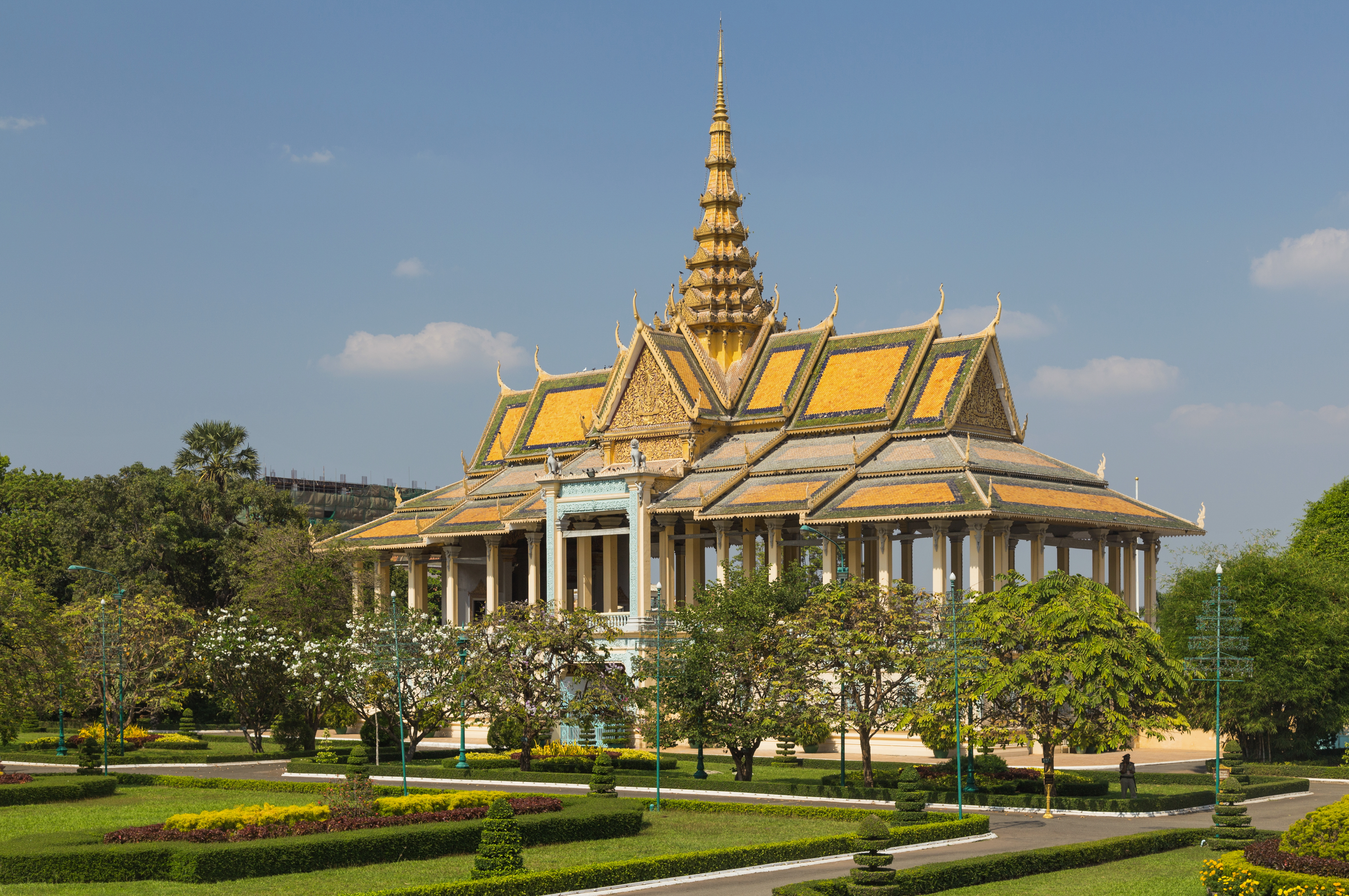 Royal Gardens and Chanchhaya Pavilion. Royal Palace. Phnom Penh, Cambodia.